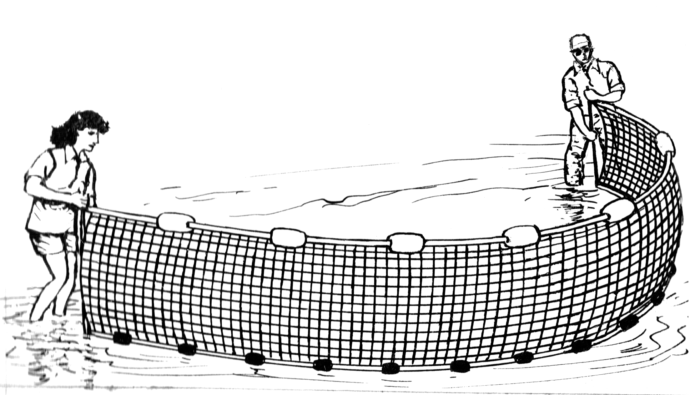 Line art of Seine fishing.